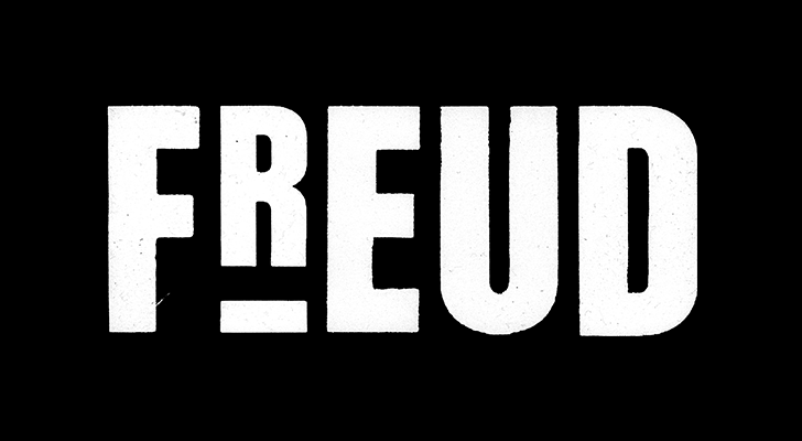 The logo of the Netflix series FREUD